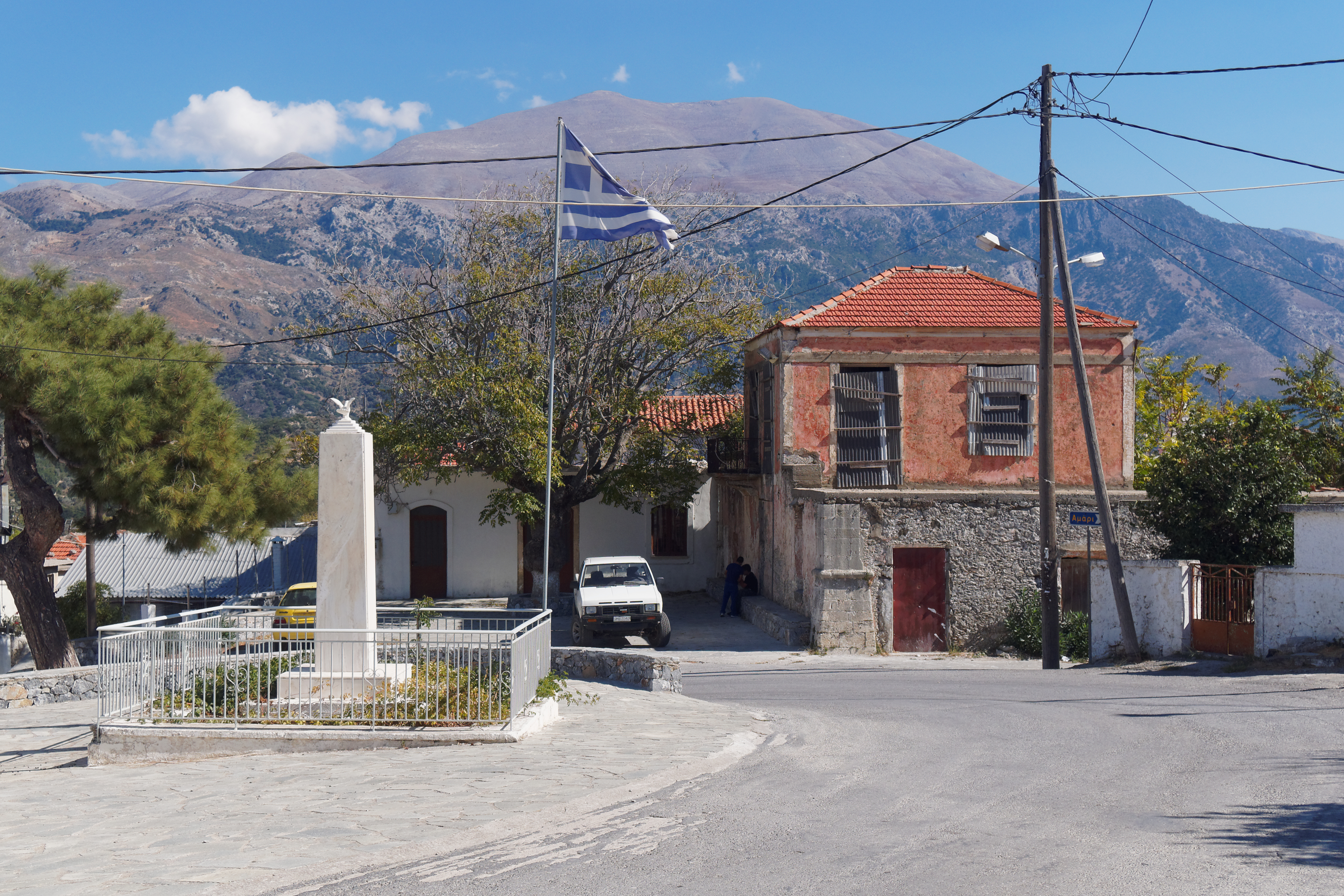 The central square of Monastiraki, Crete, with the heroon.